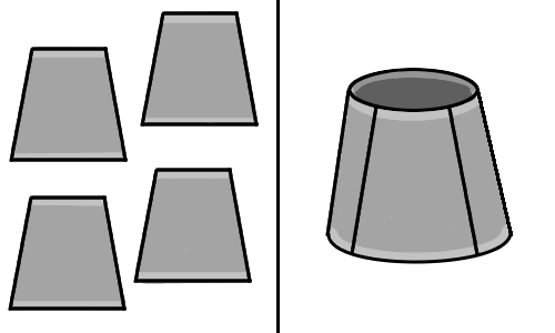 An illustration of the components and construction of a four-gored skirt.